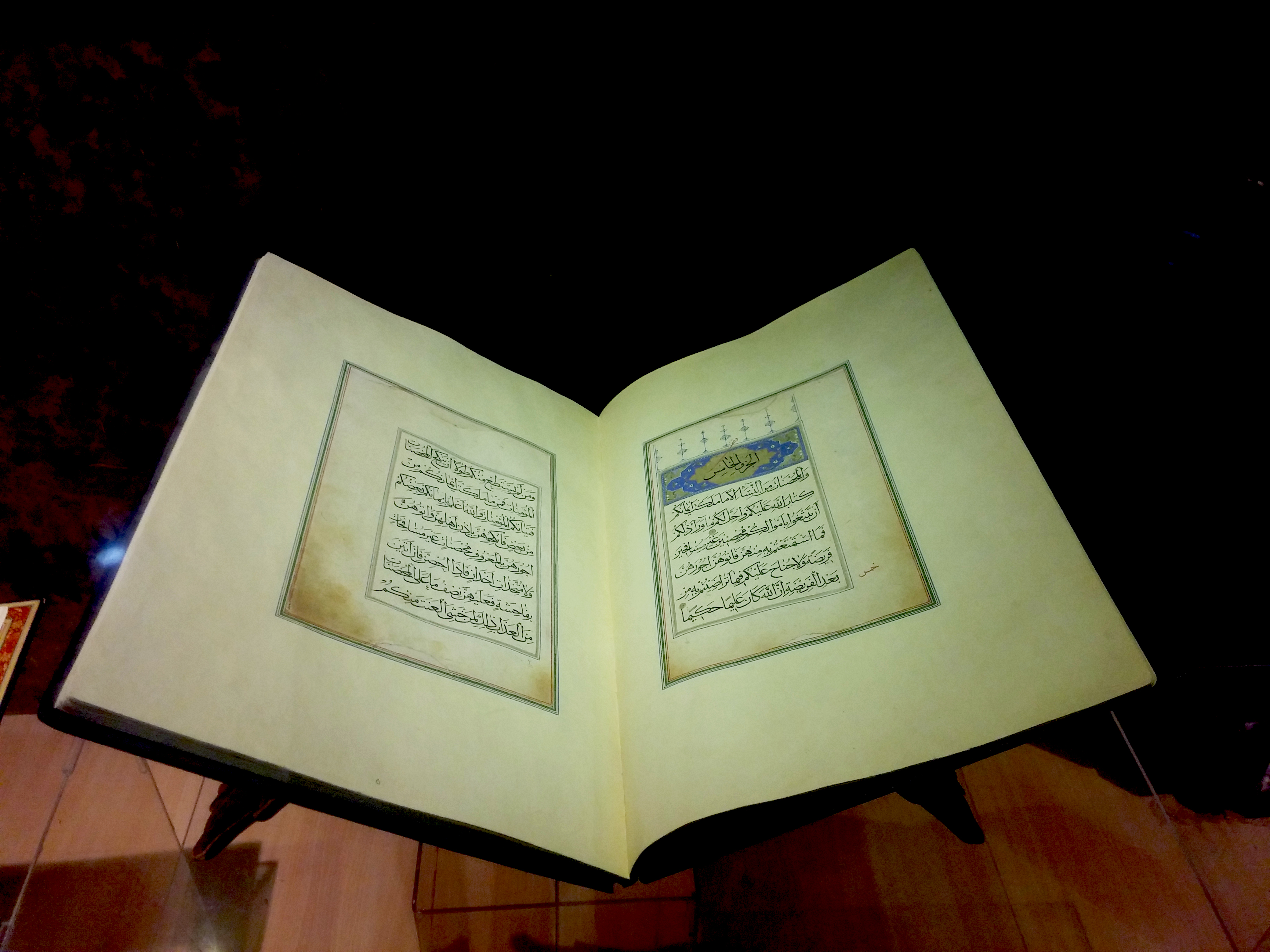 Quran attributed to Shah Safi waqf to Fatima Masumeh Shrine